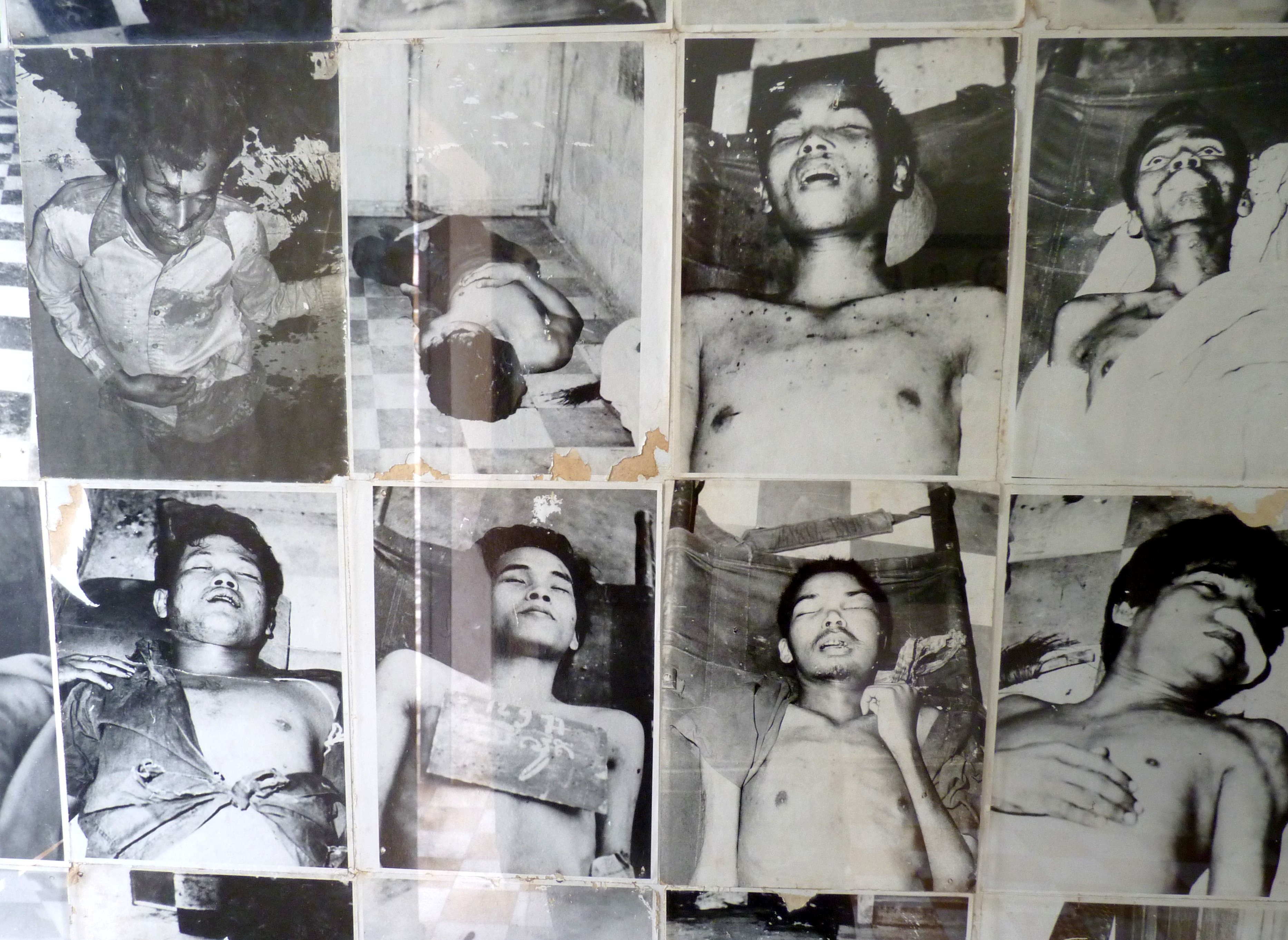 Photos of victims in Tuol Sleng prison